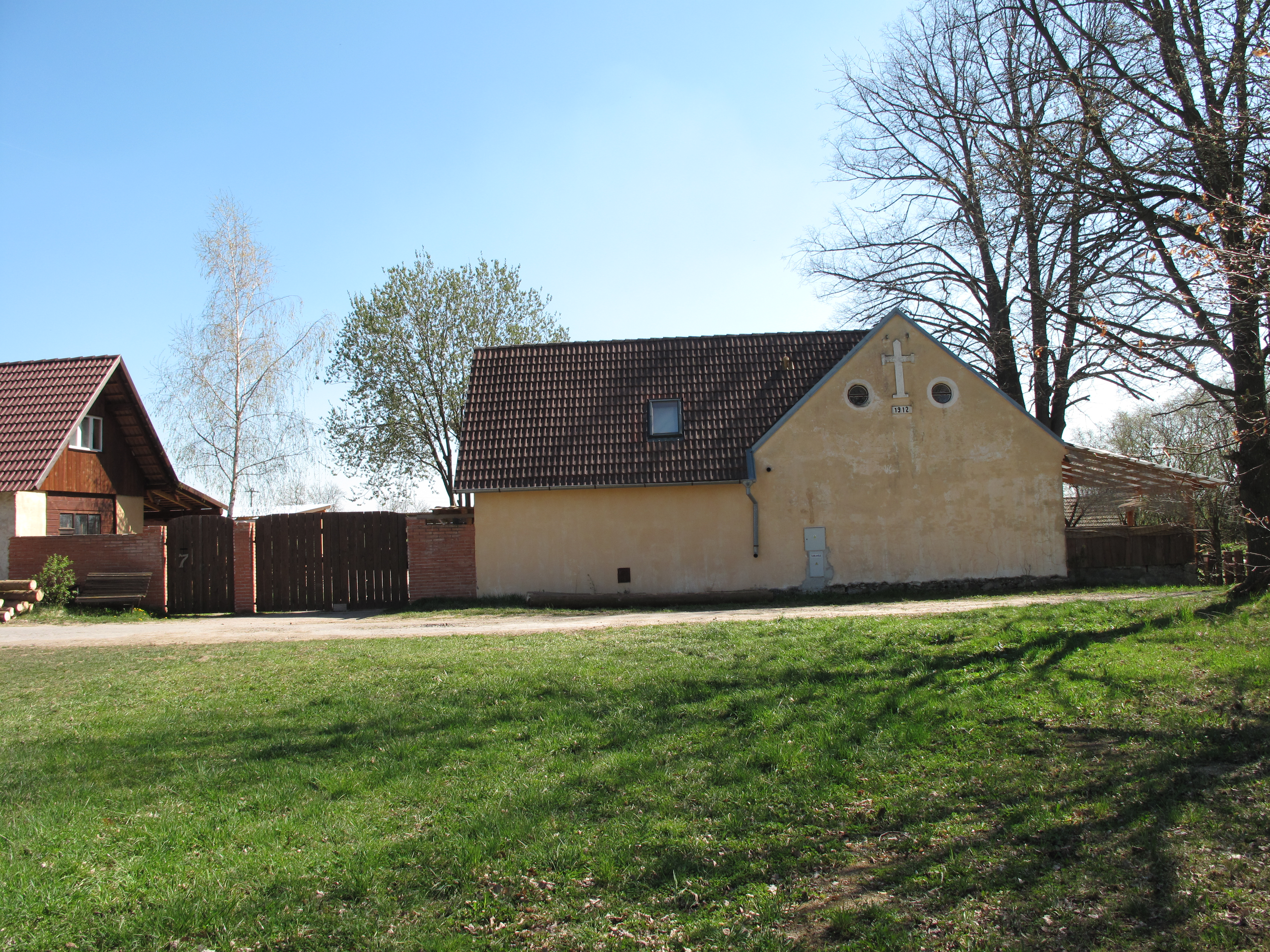 House in Jezviny.